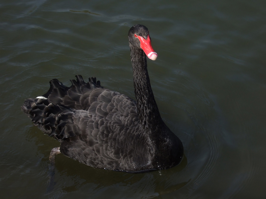 Black swan swimming in Reading, UK.